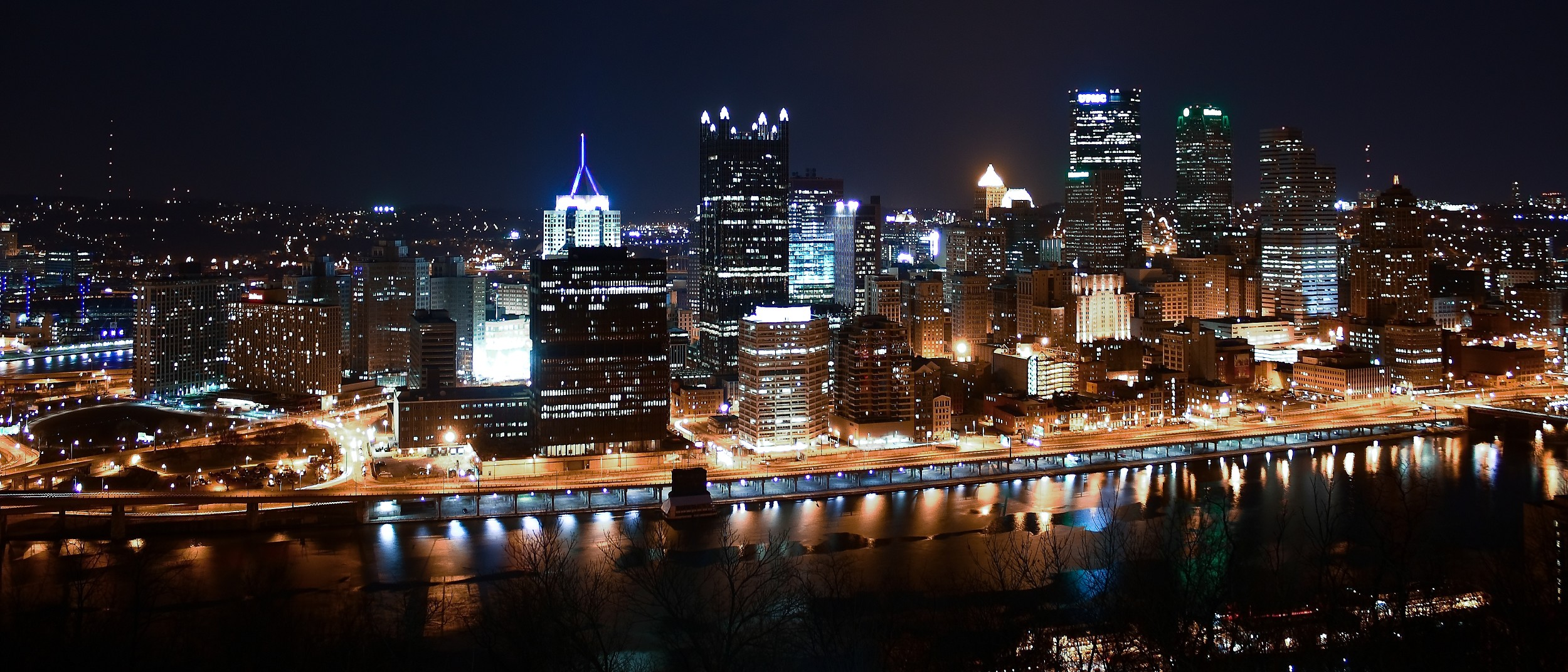 The night view of Pittsburgh skyline from Mount Washington.